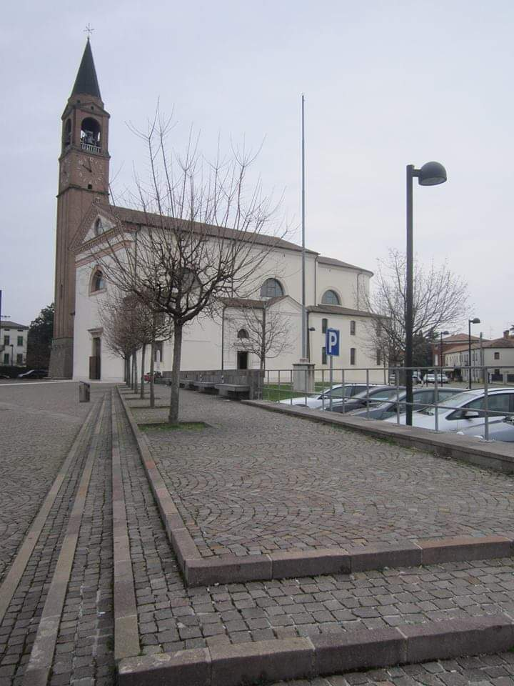 Town Centre of Arsego